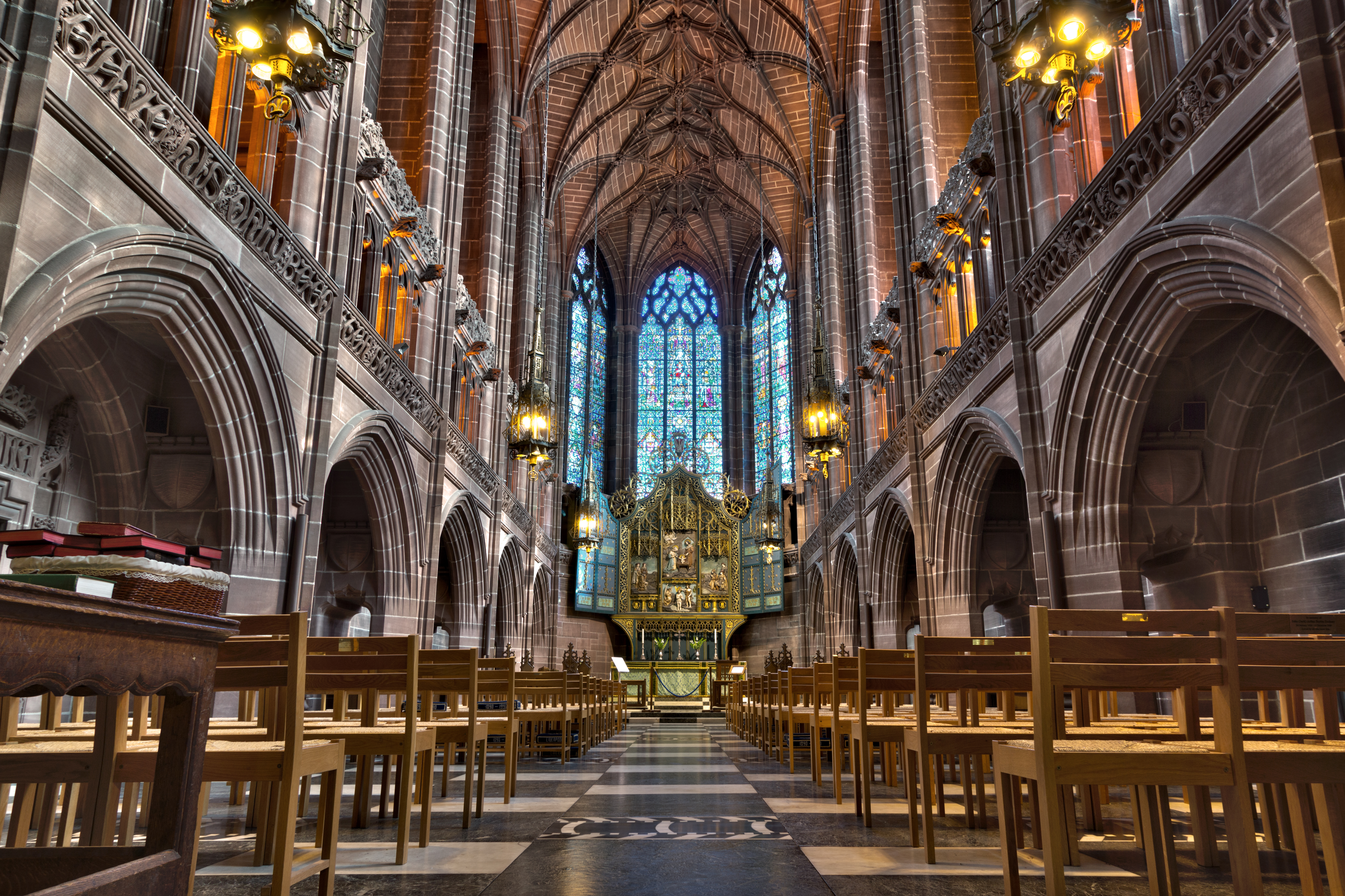 5 exposure HDR (-2, -1, 0, +1, +2 ev). Merged and tonemapped in Photoshop CS6.